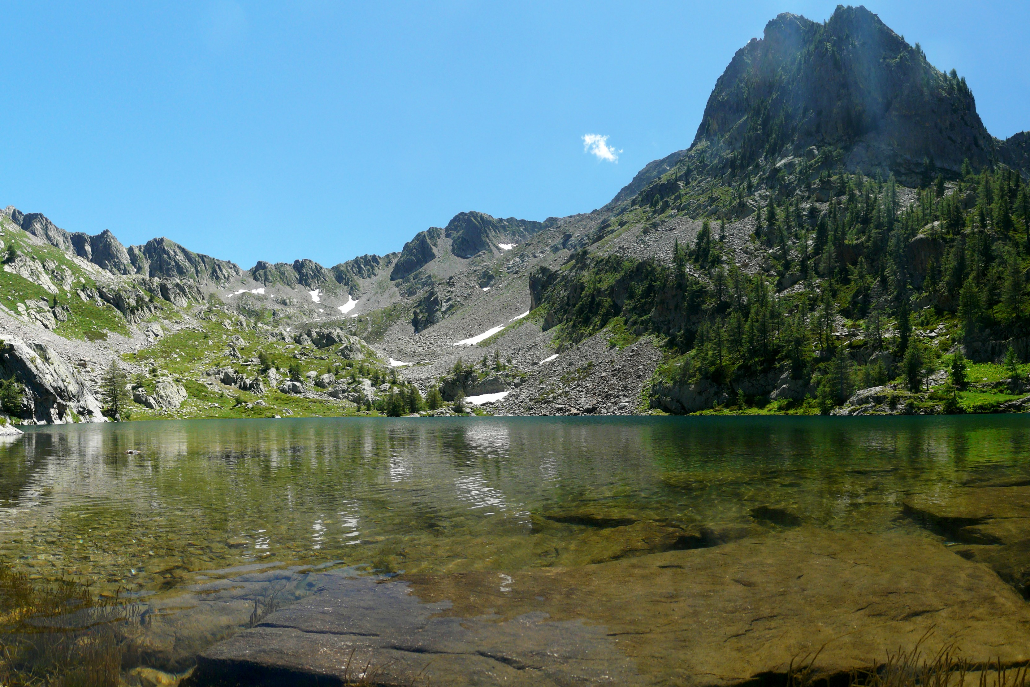 Trécolpas lake and cime de l'Angellière (2700 m), in Mercantour national park, Maritime Alpes, France